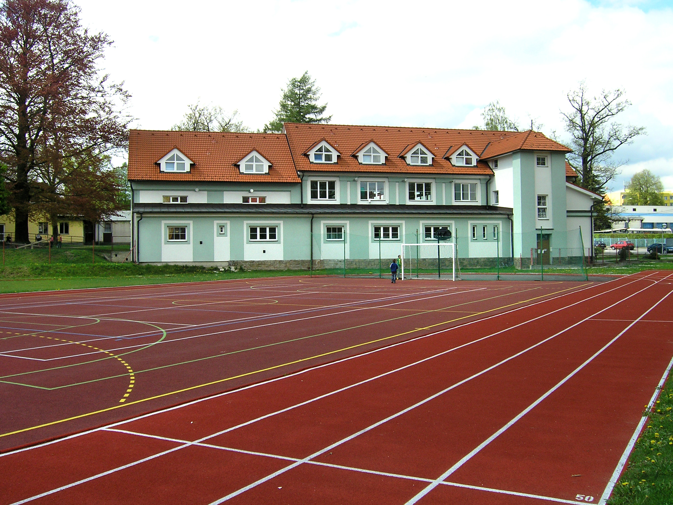 Elementary school in Počátky, Czech Republic